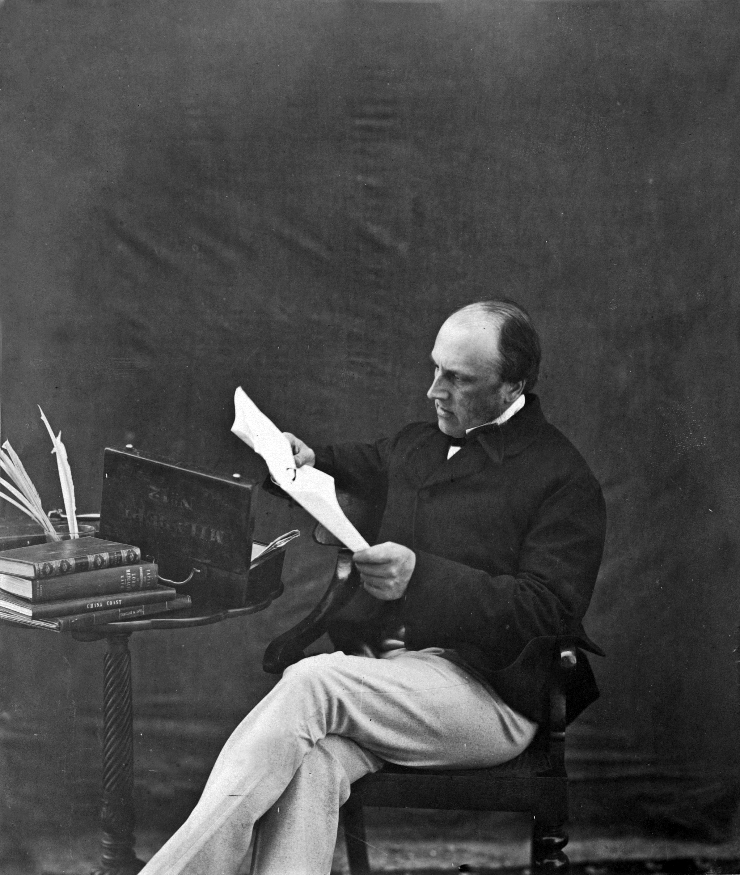 [Lord Canning, Viceroy and Governor General of India, from March 1856 to March 1862] Unknown Artist Date: 1860 Medium: Albumen silver print from glass negative Dimensions: Image: 24.1 x 20.9 cm (9 1/2 x 8 1/4 in.) Mount: 33 x 26.4 cm (13 x 10 3/8 in.) Mount (2nd): 30.5 x 24.7 cm (12 x 9 3/4 in.) Classification: Photographs Credit Line: Gilman Collection, Purchase, Cynthia Hazen Polsky Gift, 2005 Accession Number: 2005.100.491.1 (1) This artwork is not on display